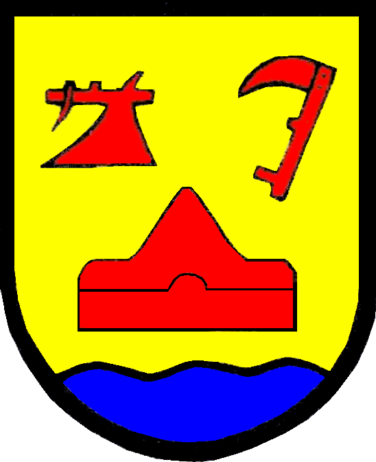 Coat of arms of the municipality Arlewatt in Schleswig-Holstein, Germany.